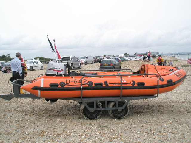 2009 Open day at Hayling Lifeboat Station (8)